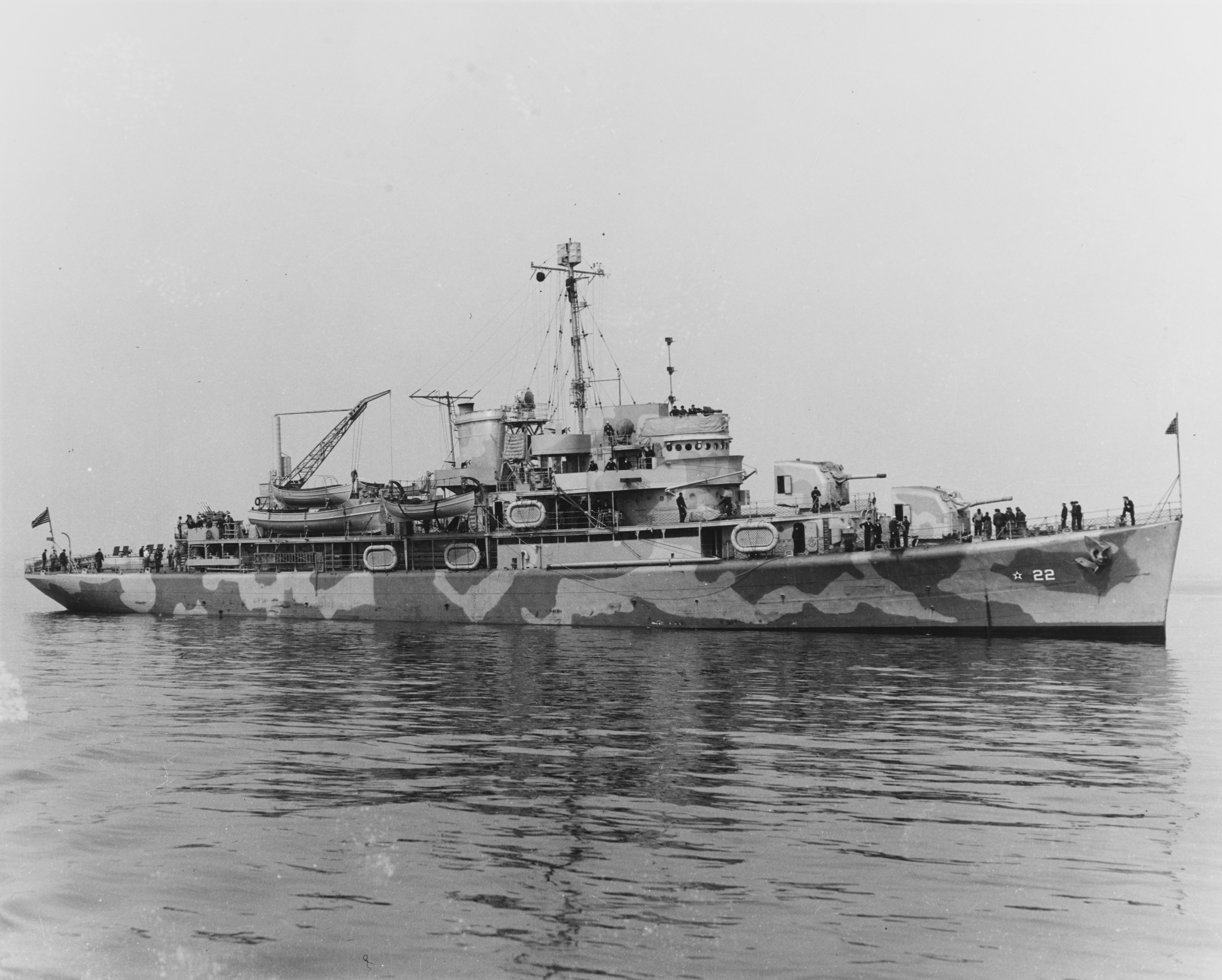 Photographed on 3 April 1942 at Boston, Massachusetts, in her original configuration with 2 5/38 guns. She is wearing Measure 12 Modified camouflage. Photograph from the Bureau of Ships Collection in the U.S. National Archives.